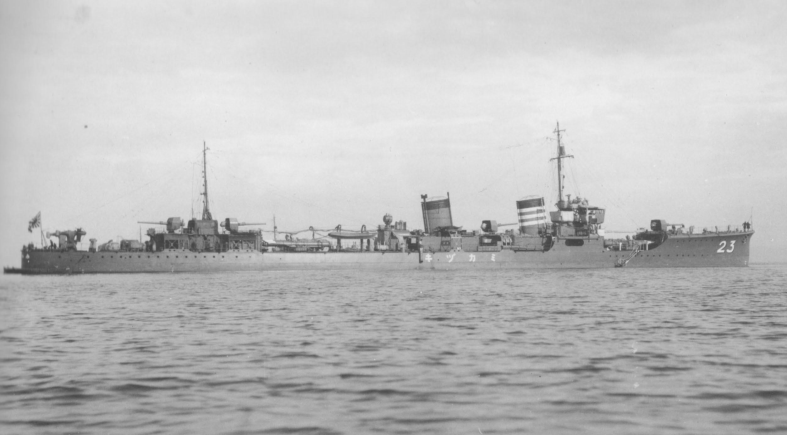 Imperial Japanese Navy destroyer Mikazuki, the second Japanese warship to bear that name.